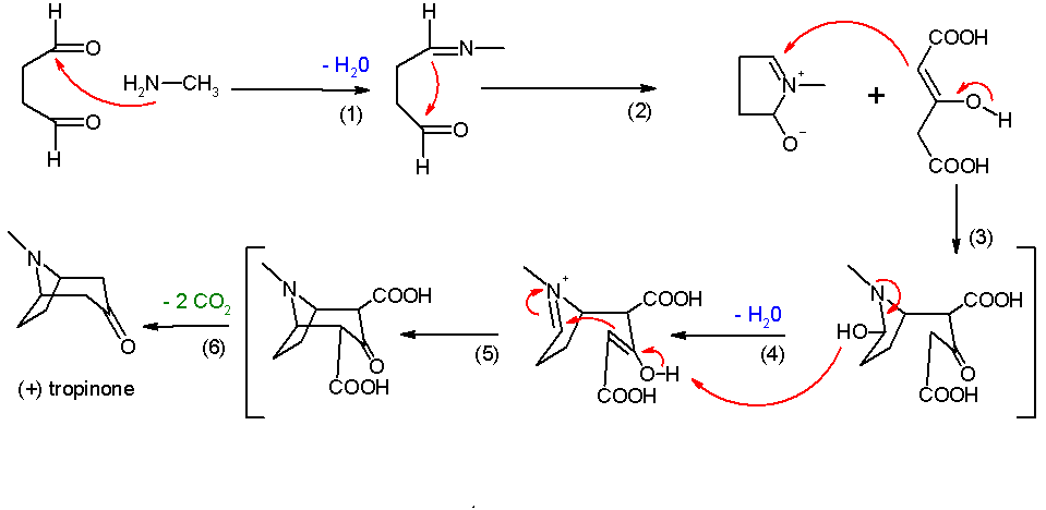 tropinone synthesis